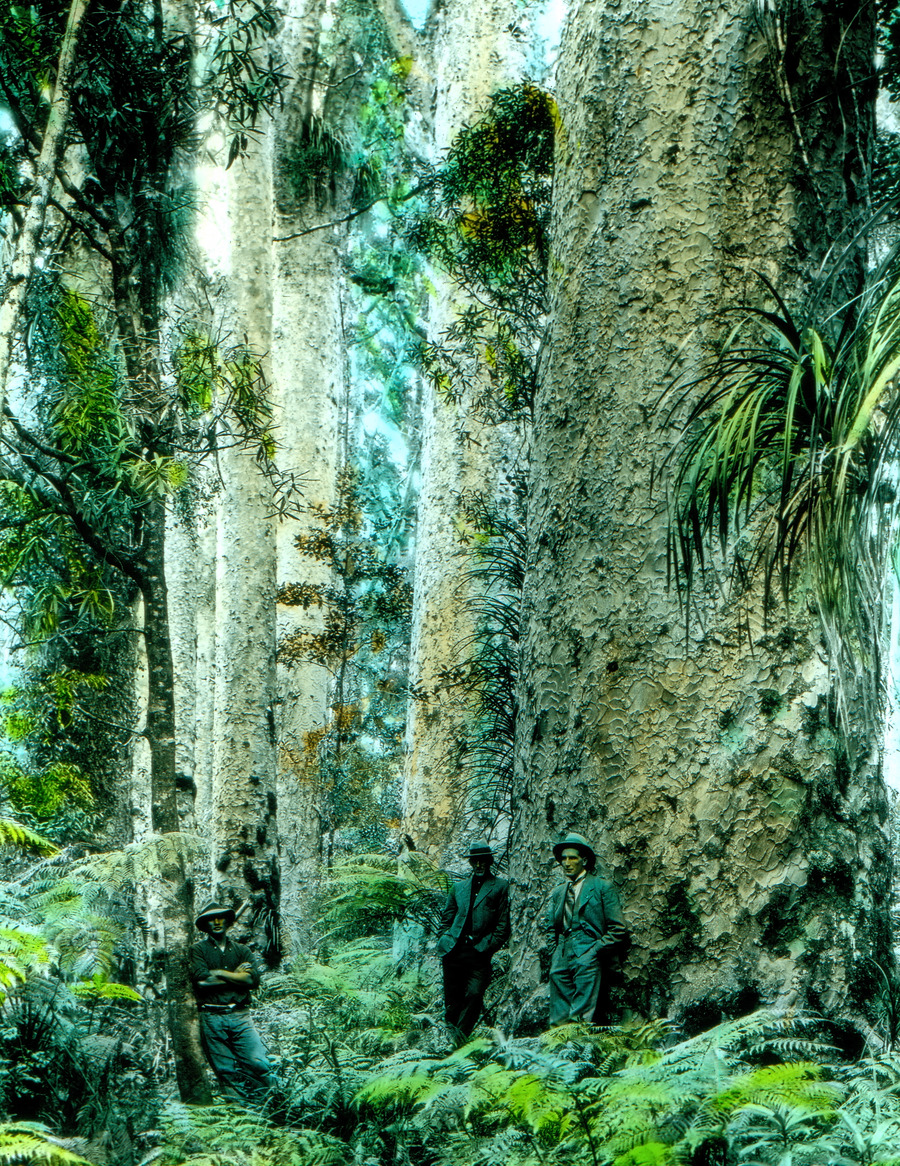 Lantern Slide: New Zealand: In a North Auckland Kauri Forest (R730373) Reference: R730373 AANM W3168 1 / 1933 Digitised image of glass lantern slide. Material From Archives New Zealand